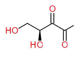 A universal signal molecule used by some bacteria for inter-species communication